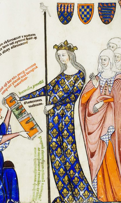 Joan II, Countess of Burgundy, Queen of France and Navarre, (wife of King Philip V of France) Miniature (detail) from "Breviculum seu electorium parvum" of Thomas le Myésier, Karlsruhe, Badische Landesbibliothek, St. Peter perg. 92, fol. 12r